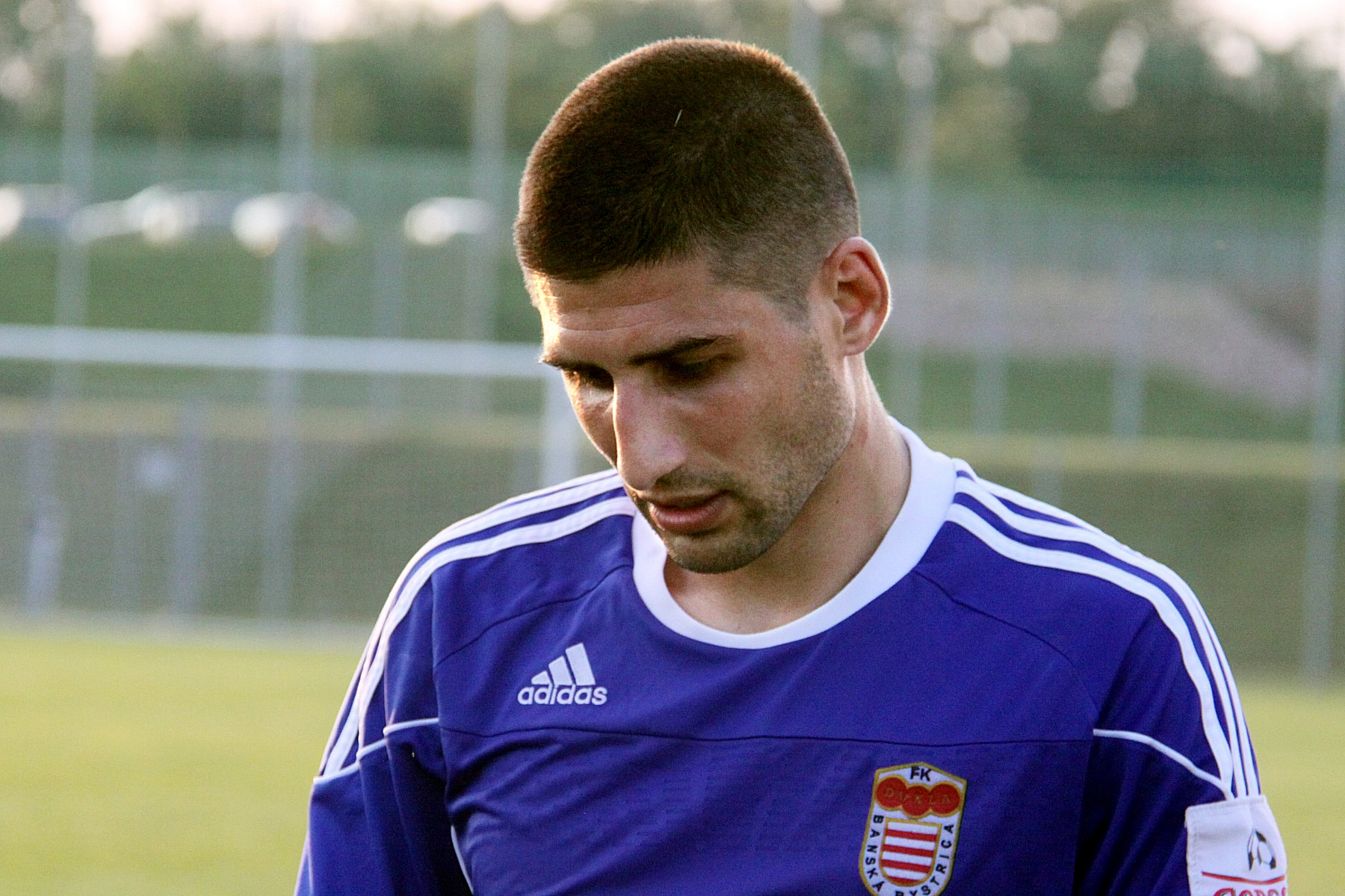 Friendly match SV Mattersburg vs FK Dukla Banská Bystrica (2:2) at 2013-06-21 in Mattersburg. – The photo shows Matúš Turňa (FK Dukla Banská Bystrica).